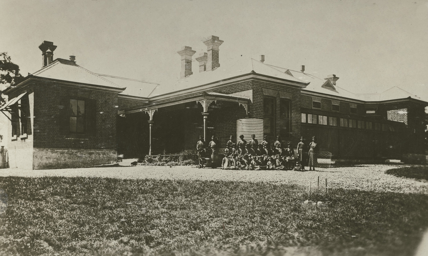 Title:Cootamundra Training Home for Girls - front view Dated: No date Digital ID: 4346_a020_a020000148 Rights: No known copyright restrictions We'd love to hear from you if you use our photos/documents. Many other photos in our collection are available to view and browse on our website using Photo Investigator.